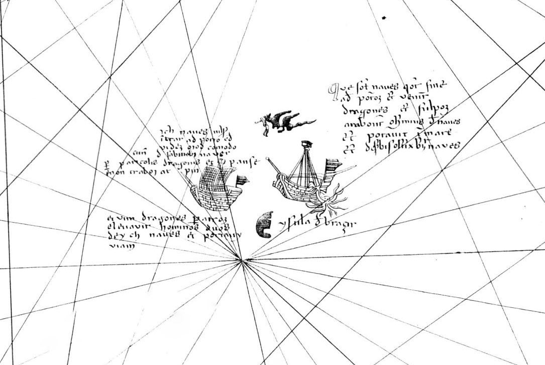 Part of the 1367 Pizigani portolan chart. Compilation from A3 photocopies from Jomard facsimile of 1849. Jomard, Edme François: Les Monuments de la géographie ou recueil d’anciennes cartes européenes et orientales publiées en fac-simile de la grandeur des originaux, Paris (1842-62). The Pizigani 1367 chart was of c. 1849 with provisional numbers 44-49 and label X. Cropped to show Mayda Island